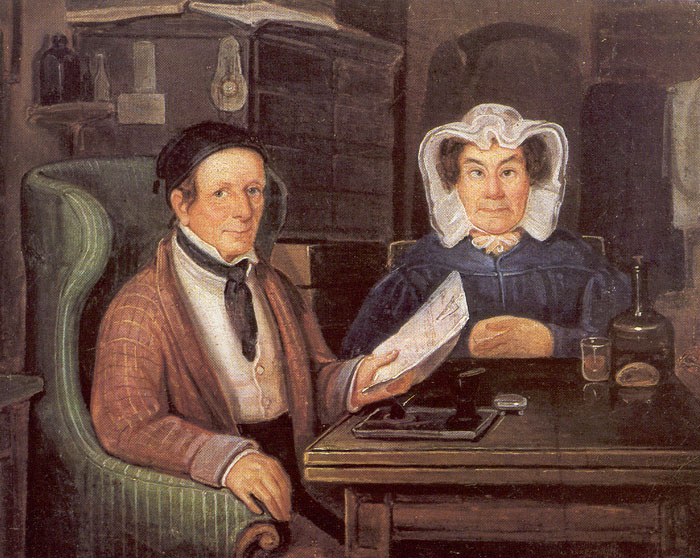 Andreas Hiltel, warder of the Tower Prison in the Castle of Nuremberg, a Kaspar Hauser' jailer, who wanted to adopt him